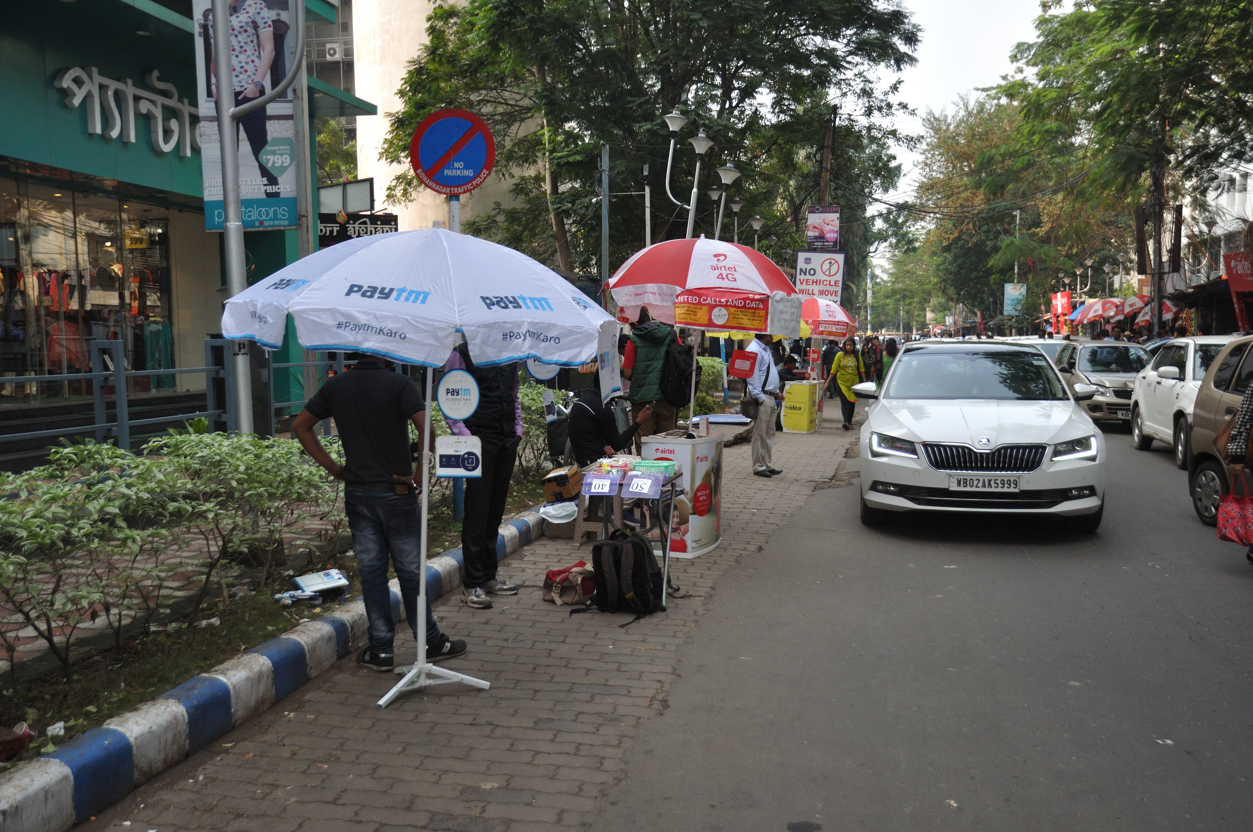 This photograph was taken in Kolkata.